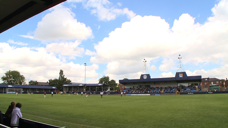 Ewen Fields after its makeover in 2010.